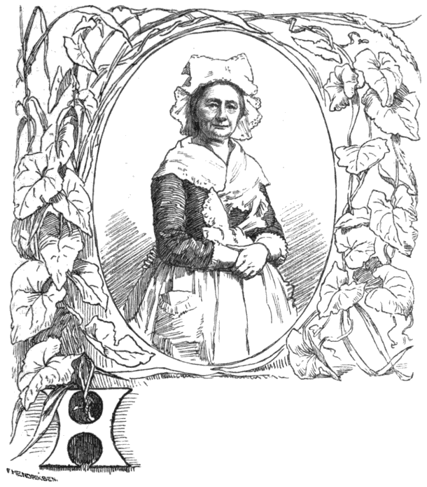 Danish actress Julie Sødring (1823-1894).